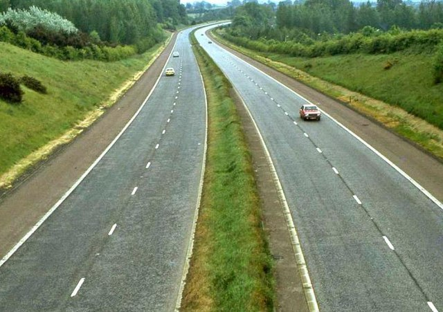 E01: The M1 near Dunmurry, Northern Ireland (1980).